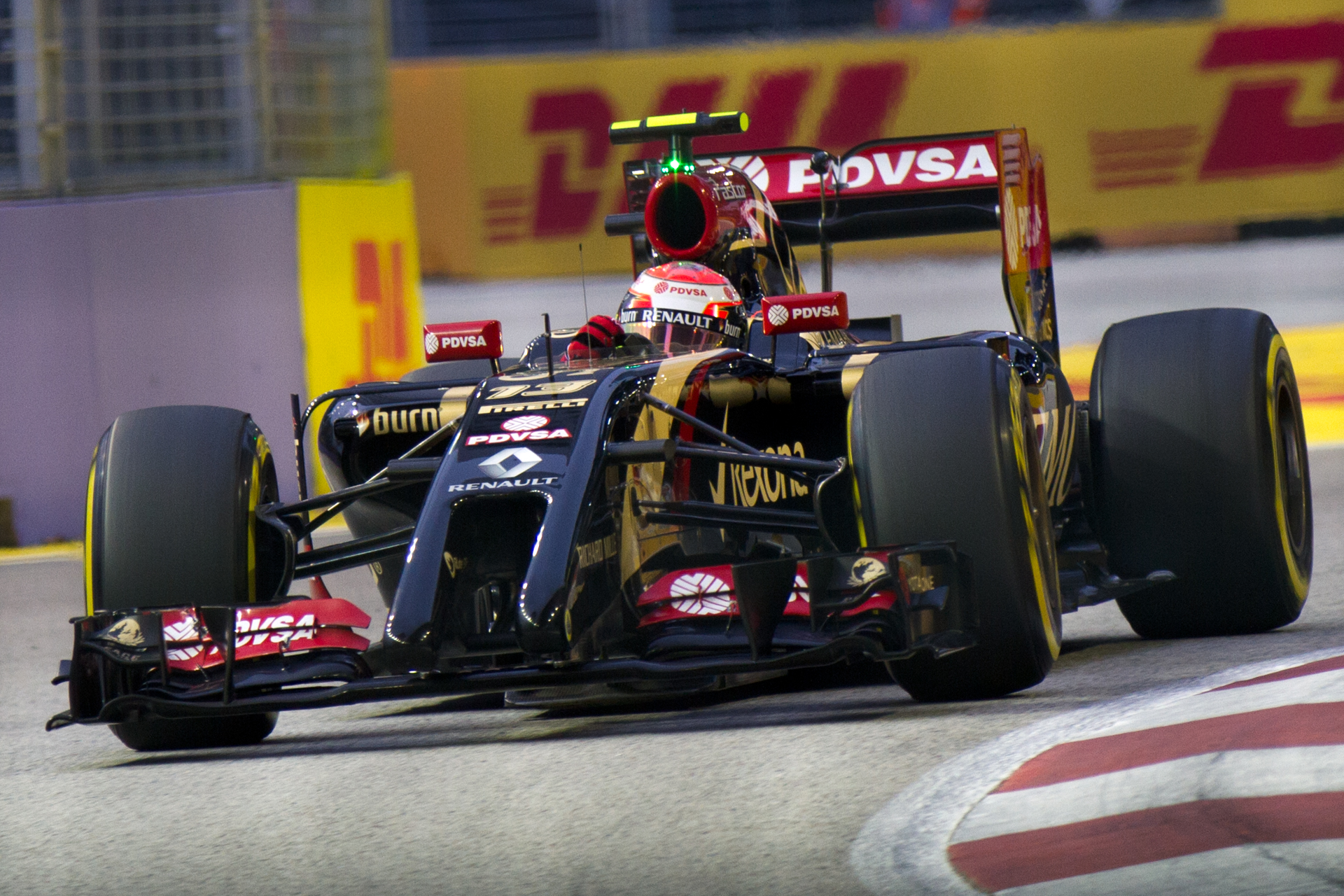 Formula One 2014 Rd.14 Singapore GP: Pastor Maldonado (Lotus)